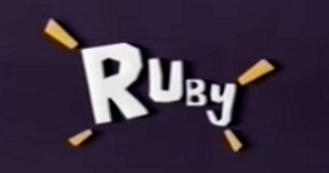 Title card used during Series 4 of the British talk-show, Ruby.